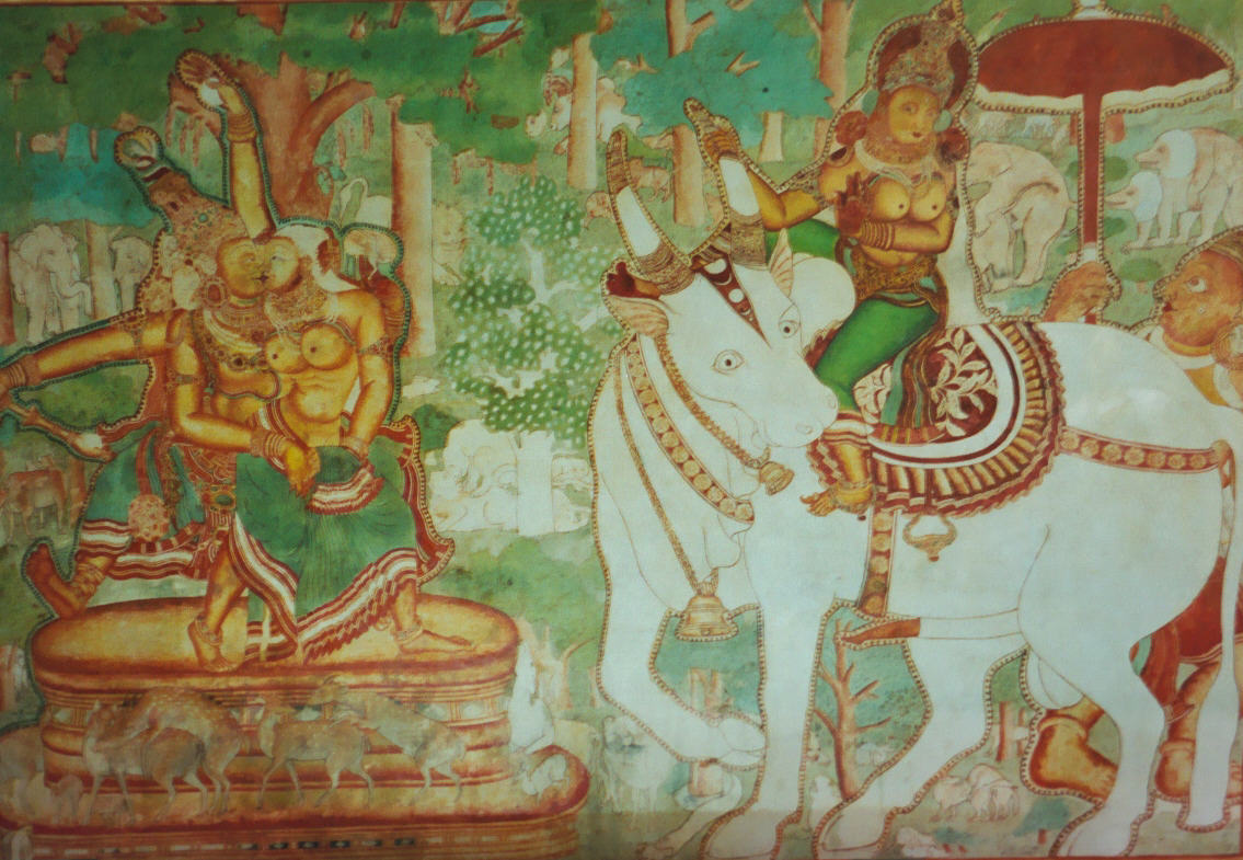 Murals at the Mattancherry Palace, Kochi, India. Shiva and Mohini as Parvati looks in distaste